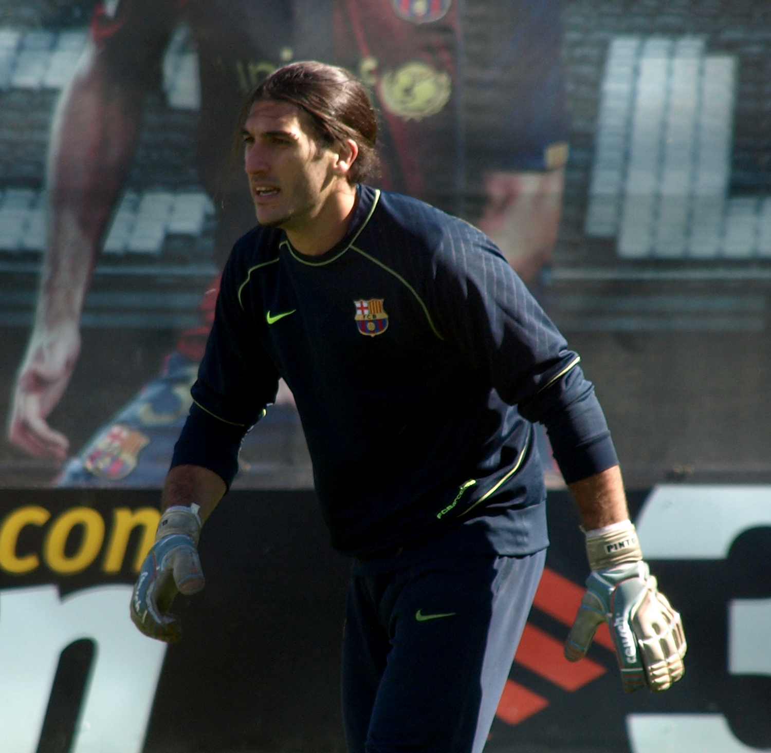 José Manuel Pinto, more commonly known as Pinto (born 8 November 1975 in El Puerto de Santa Maria, Cadiz) is a Spanish football (soccer) goalkeeper who plays for FC Barcelona.